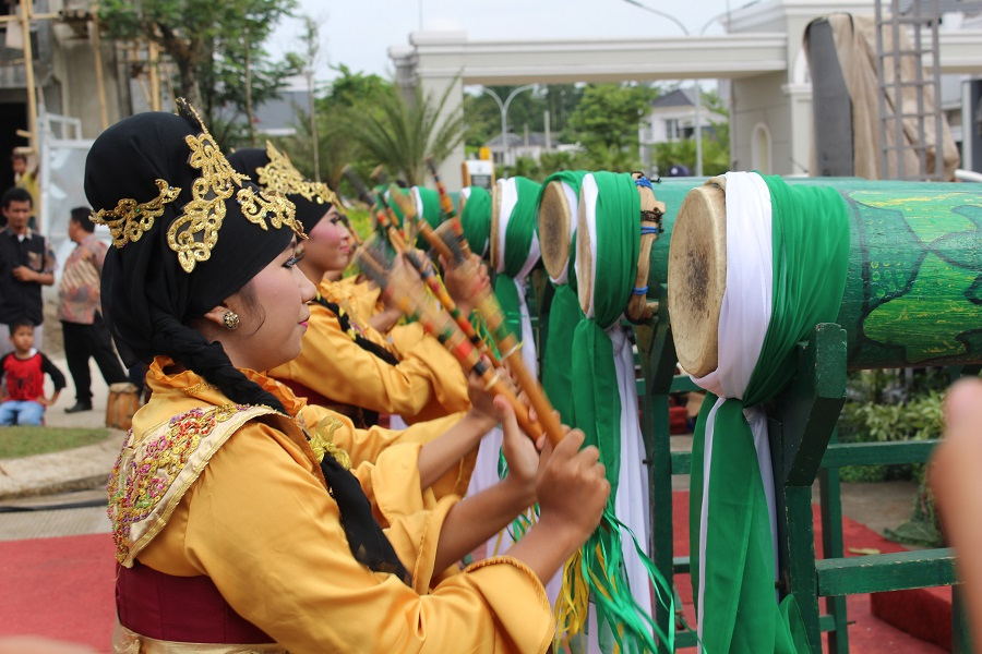 Rampak bedug performance at event of Culinary Festival of Serang city, March 23, 2017.